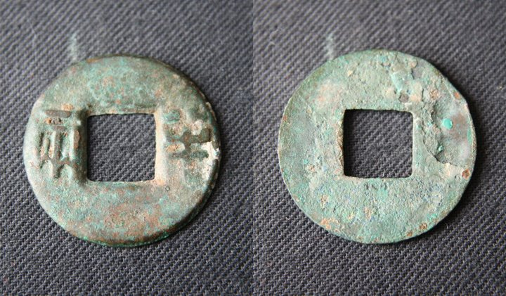 The front and reverse sides of a metal coin, 24 mm in diameter, issued during the reign of Emperor Wen (r. 180–157 BCE) of the early Han Dynasty of China.